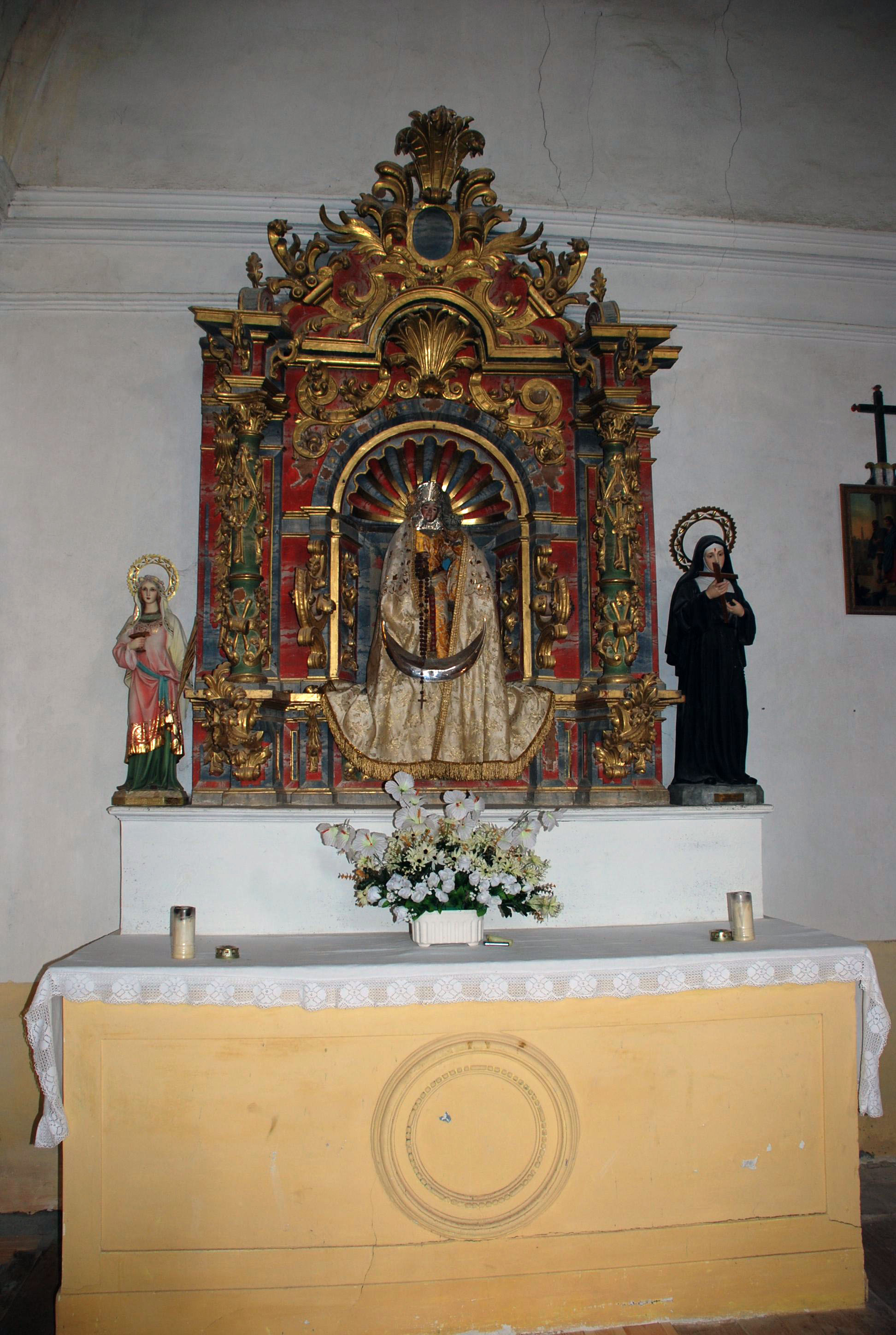 Altarpiece of the church of Saint Vincent in Villabasta de Valdavia (Palencia, Castile and León) with the Virgen del Camino, that belonged to the dissapeared Hermitage with the same name.